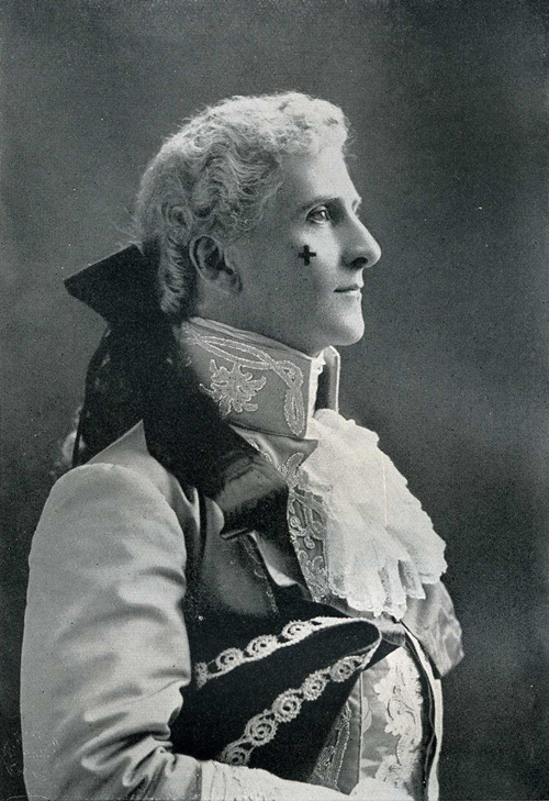 Photo of Hayden Coffin as Harry Sherwood in Cellier's 'Dorothy'